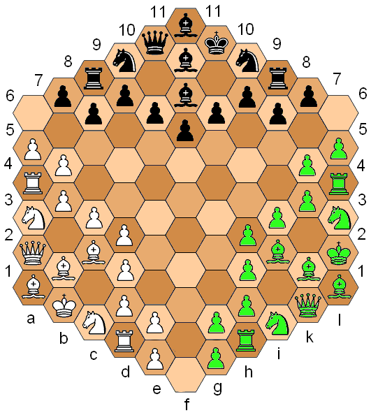 Mathewson's Hexagonal Chess Layout for Three Players